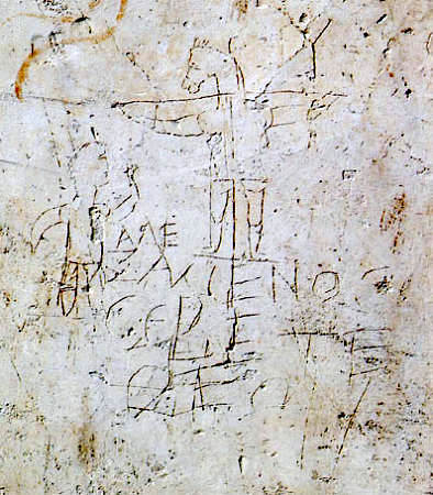 "Ancient Rome in the Light of Recent Discoveries", 1898, by Rodolfo Lanciani, chapter 5